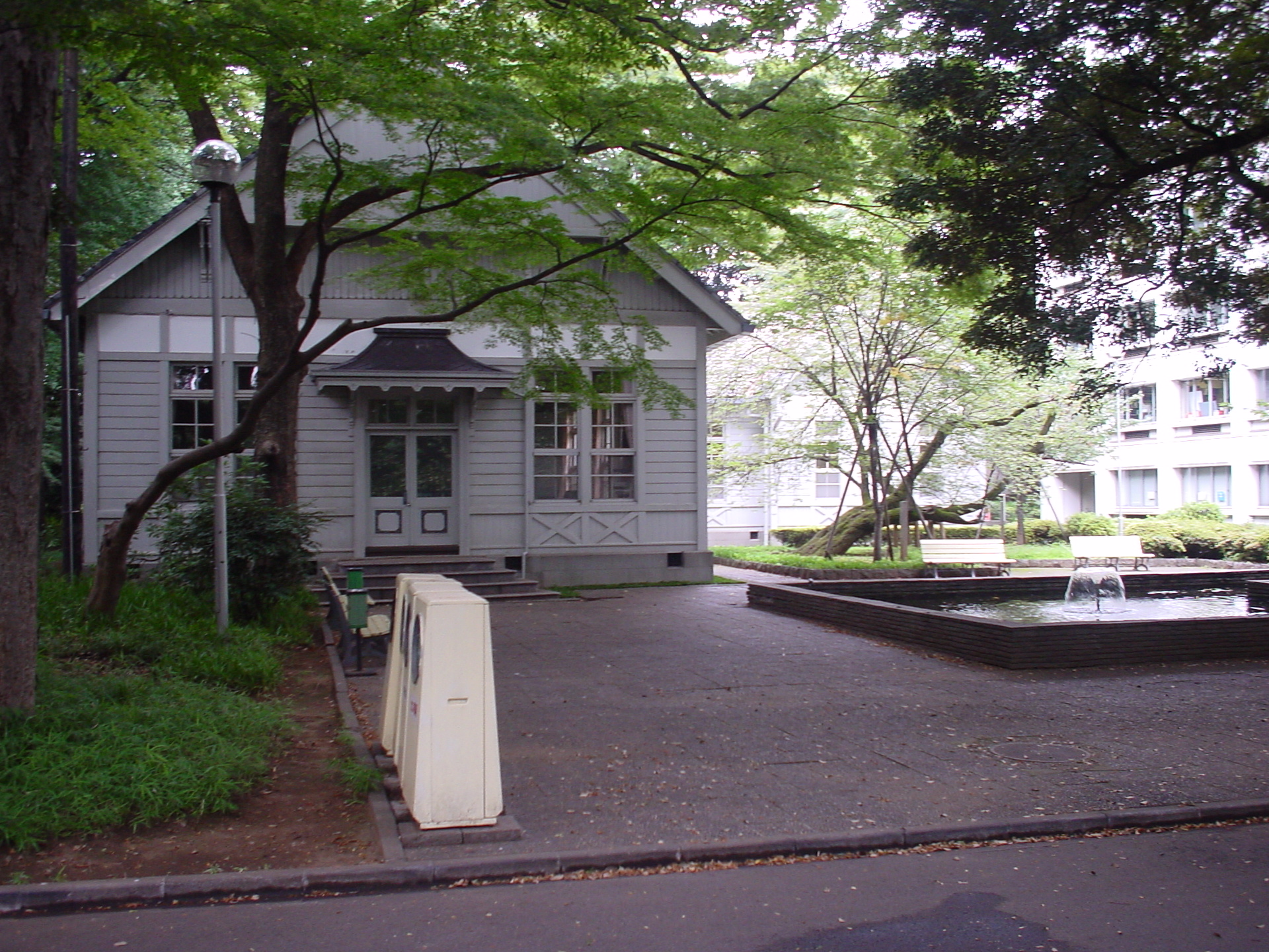 Gakushuin University Museum of History